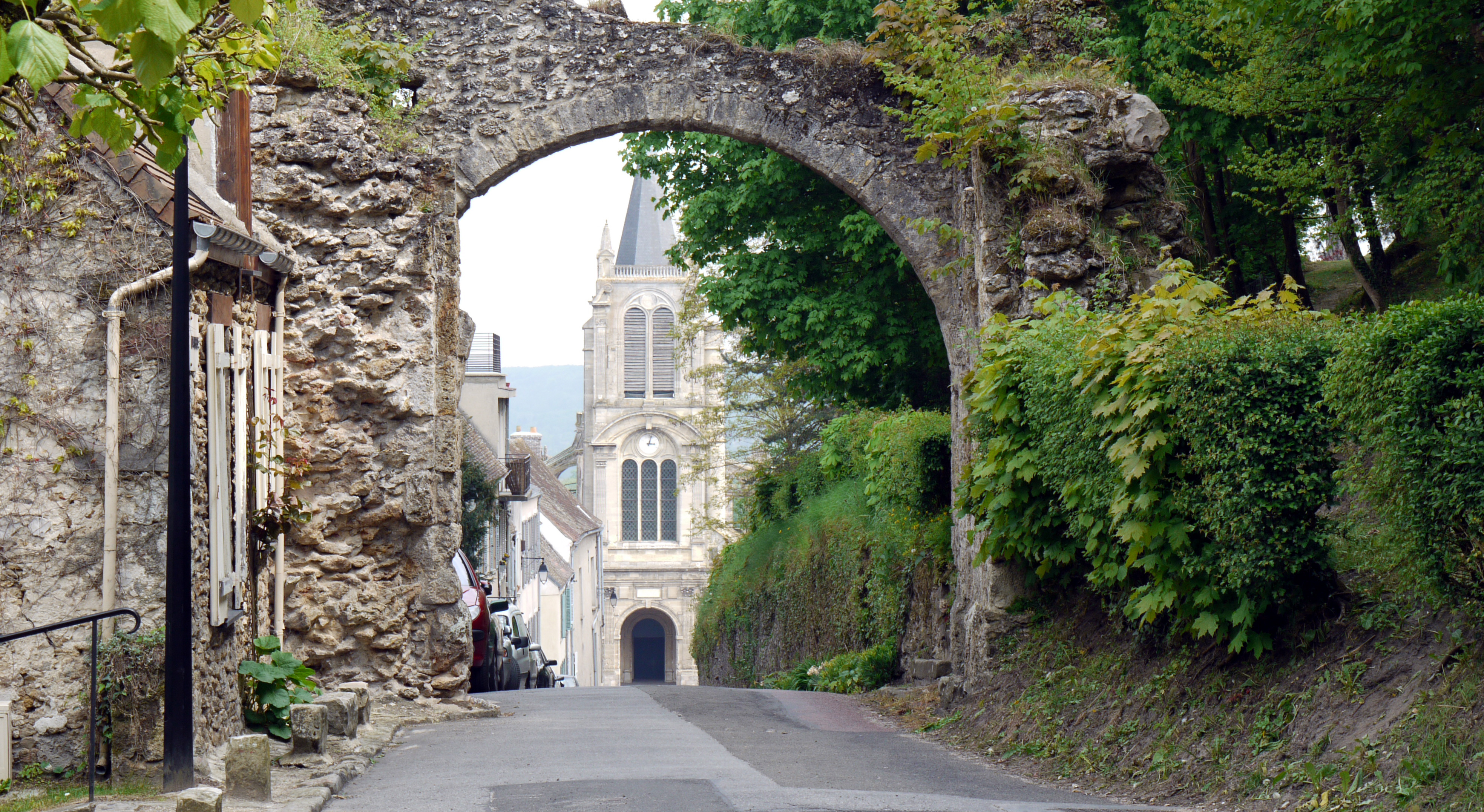 Montfort l'Amaury, Yvelines, France